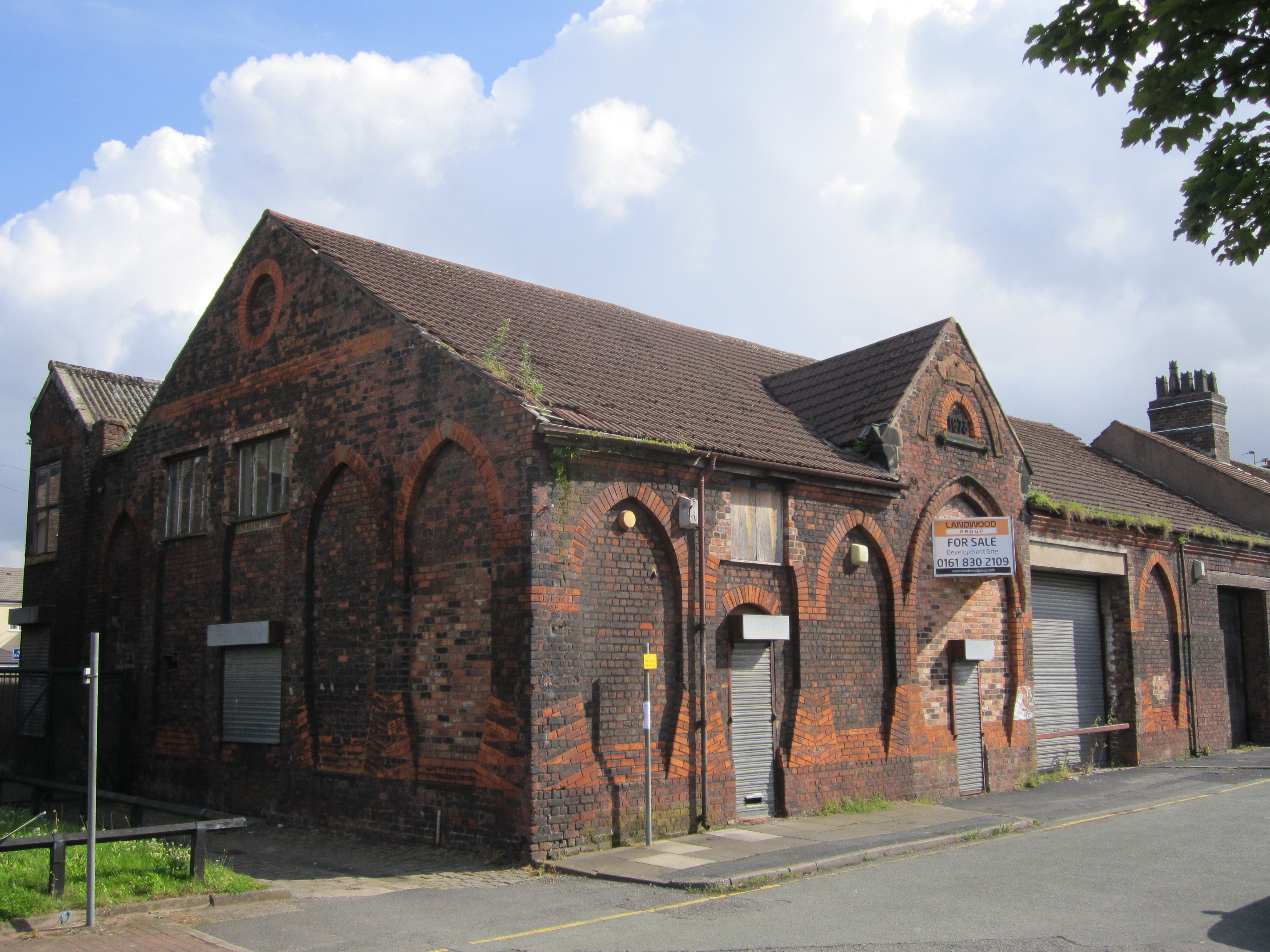 A building for sale, Widnes, Cheshire, England. Note: The image title is likely incorrect; this building is identified as former stables in another earlier photo.